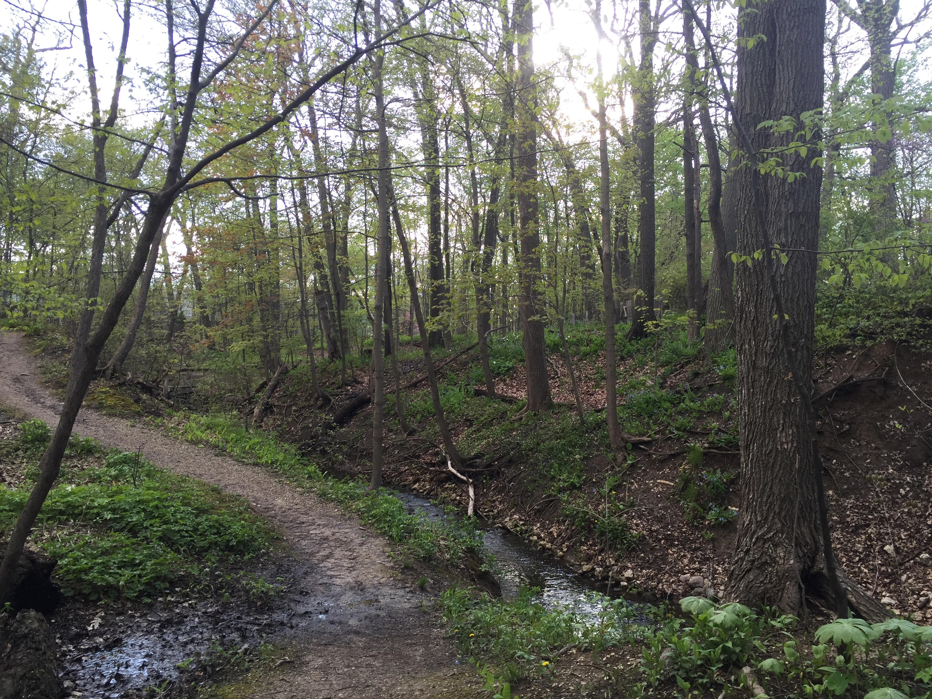 This is a picture of the view along a nature trail in Ravine Park within Lake Bluff.